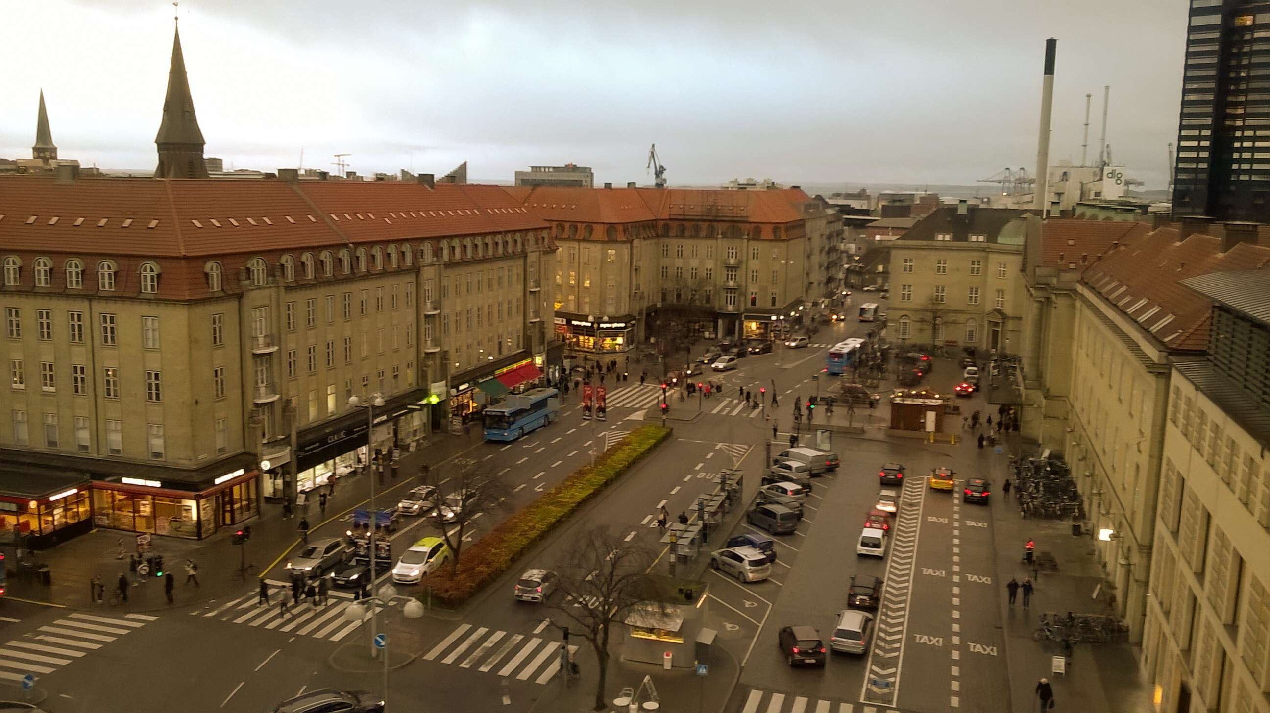 Aarhus, Banegårdspladsen seen from above.